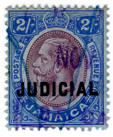 1913 2s Judicial revenue stamp of Jamaica.